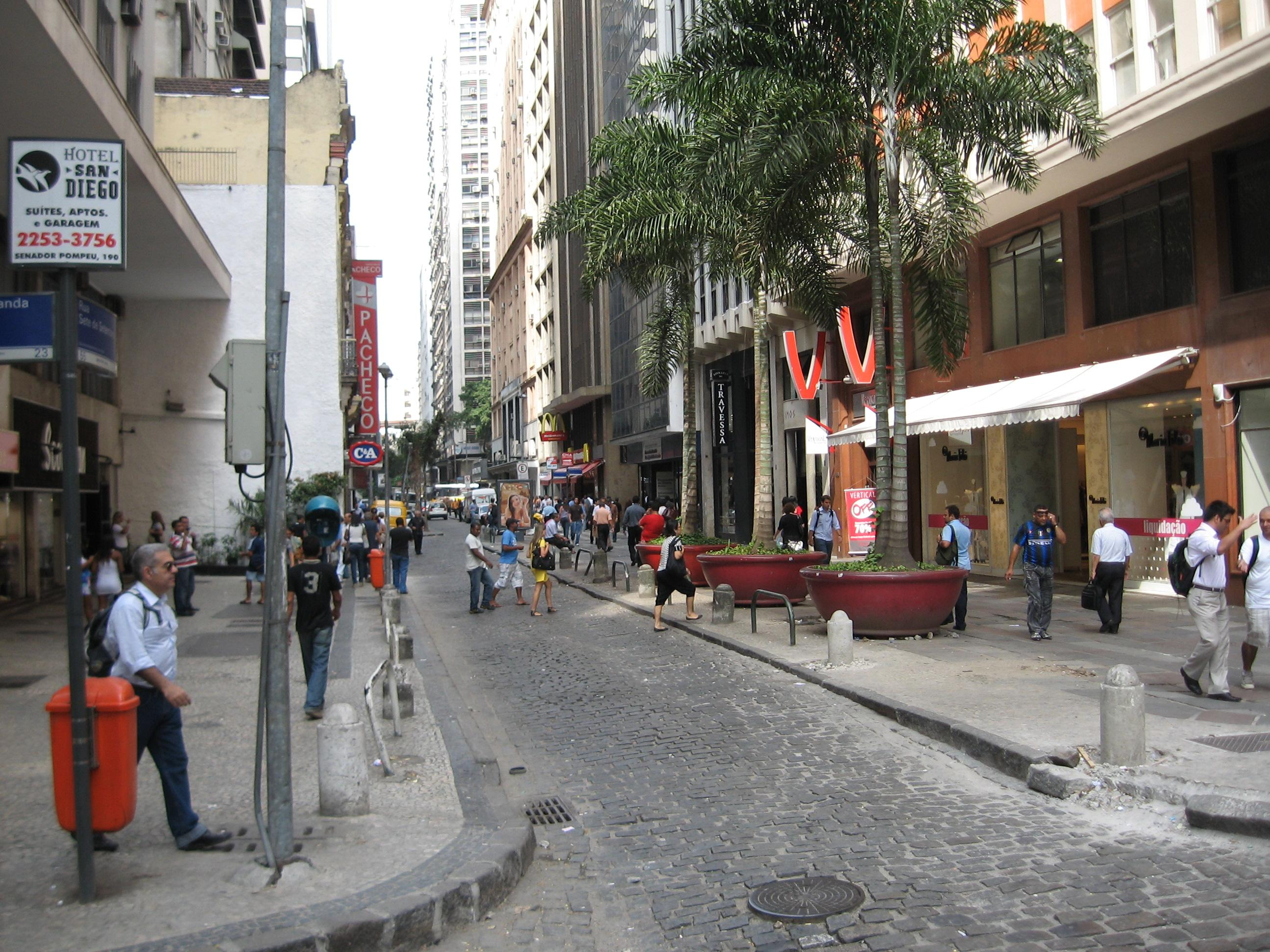 Sete de Setembro Street-Rio de Janeiro-Brazil